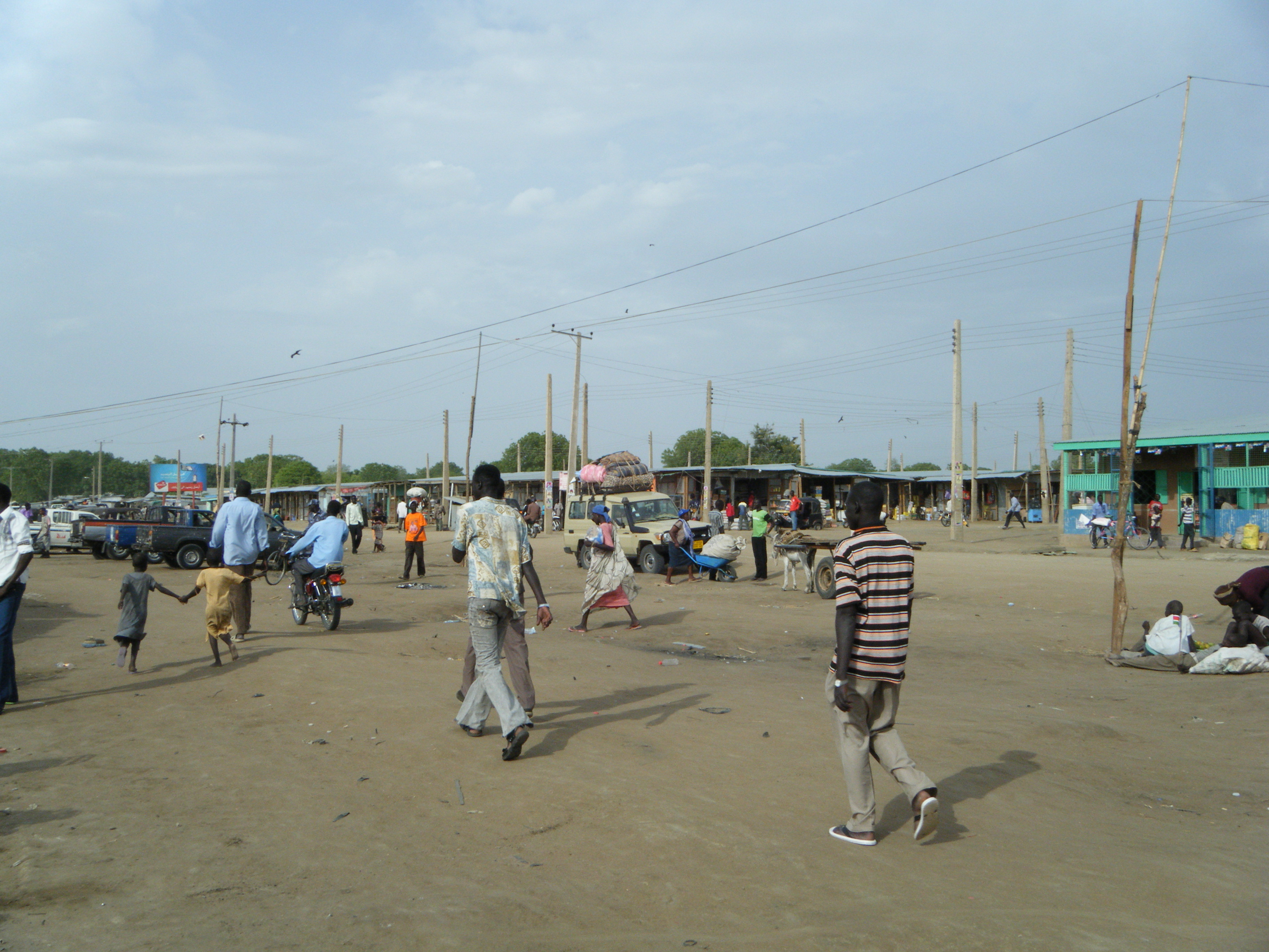 Merol Market, Bor Town, Jonglei State, South Sudan, photographed in 2010. Looking west across "Pibor Highway" at the market's eastern edge. The image show electrical wires erected in anticipation of the town's diesel power station coming online.